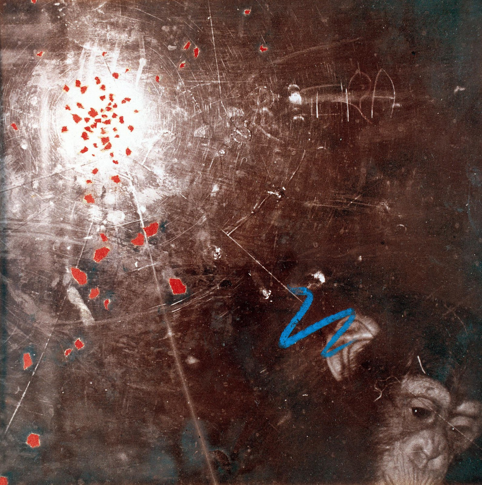 Mixed media artwork by Victor Sloan